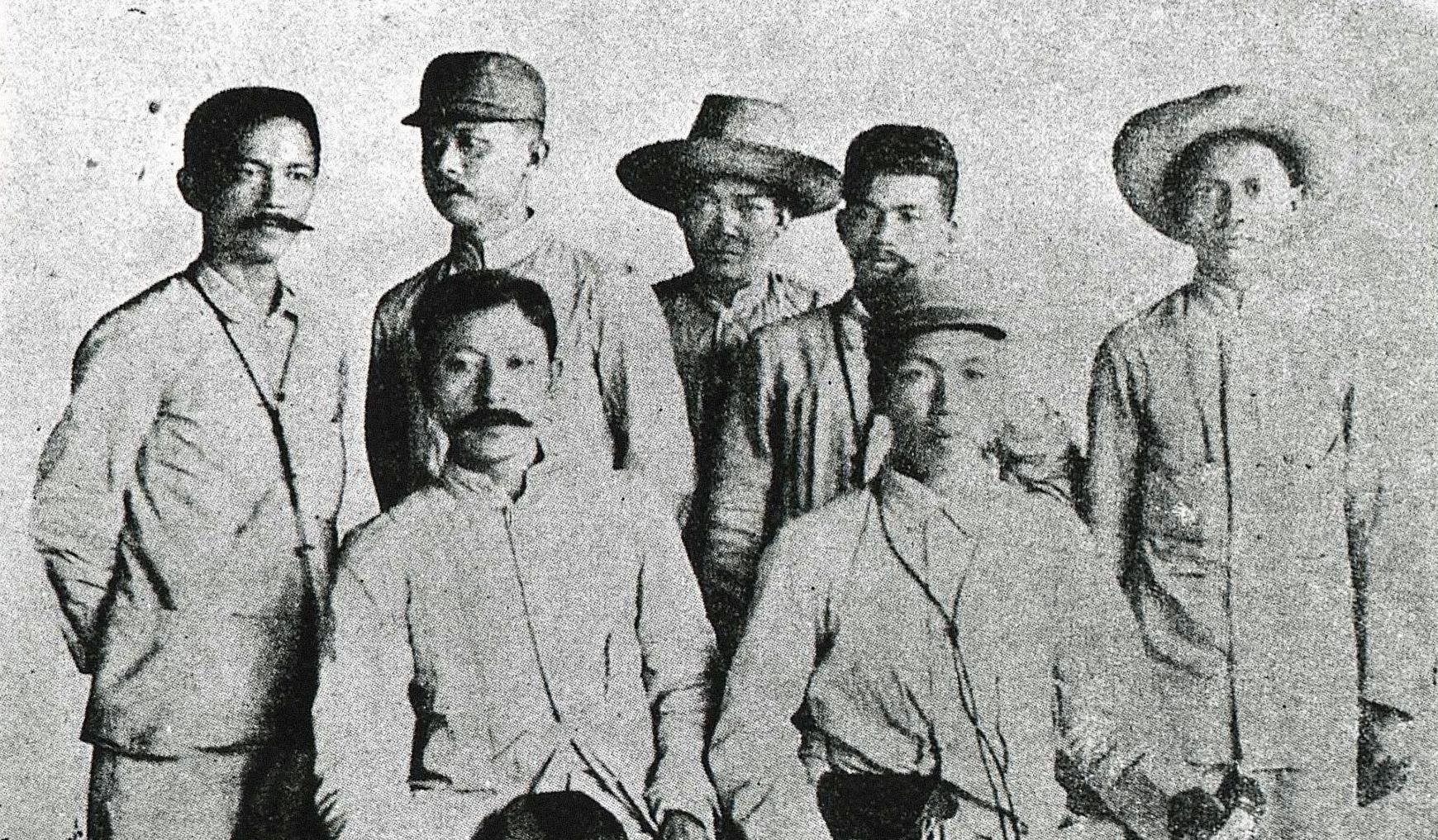 The Philippine negotiators for the Pact of Biak-na-Bato. Seated from left to right: Pedro Paterno and Emilio Aguinaldo with five companions (left to right: Tomas Mascardo, Celis, Jose Ignacio Paua, Antonio Montenegro and Mariano Llanera)